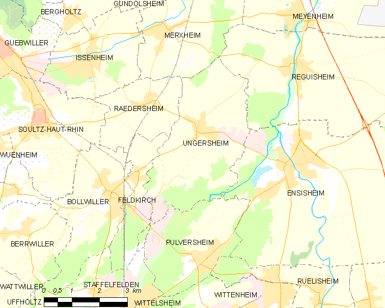 Map of French municipality